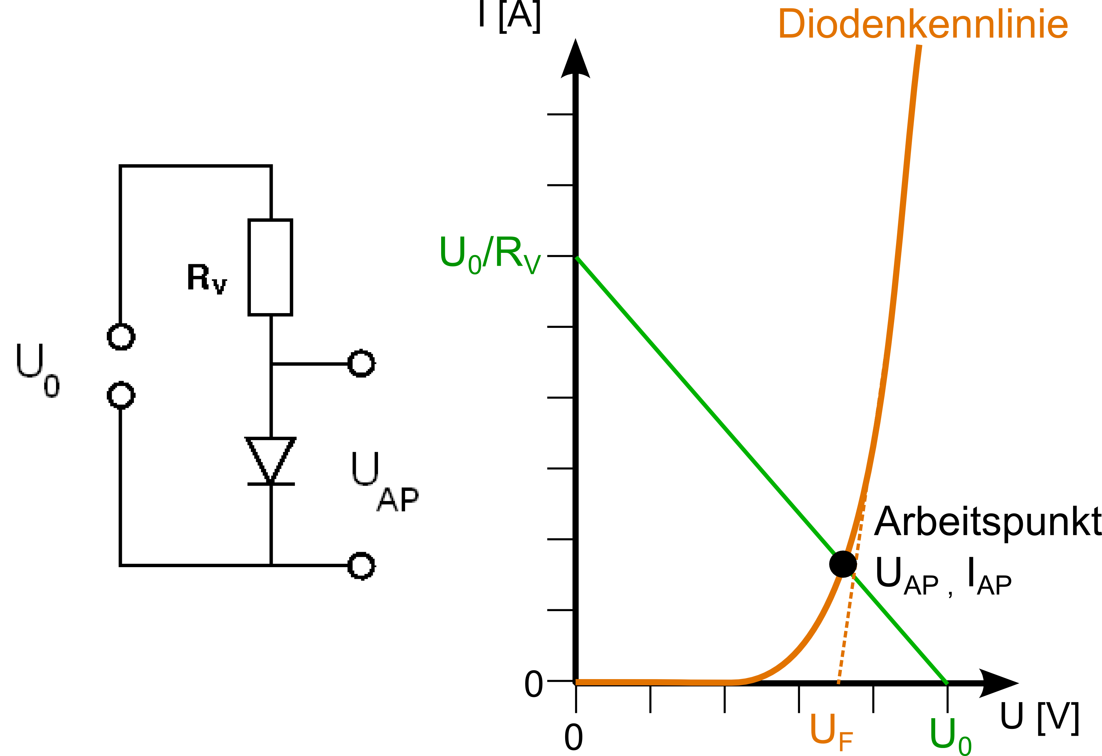 Diode, Resistor